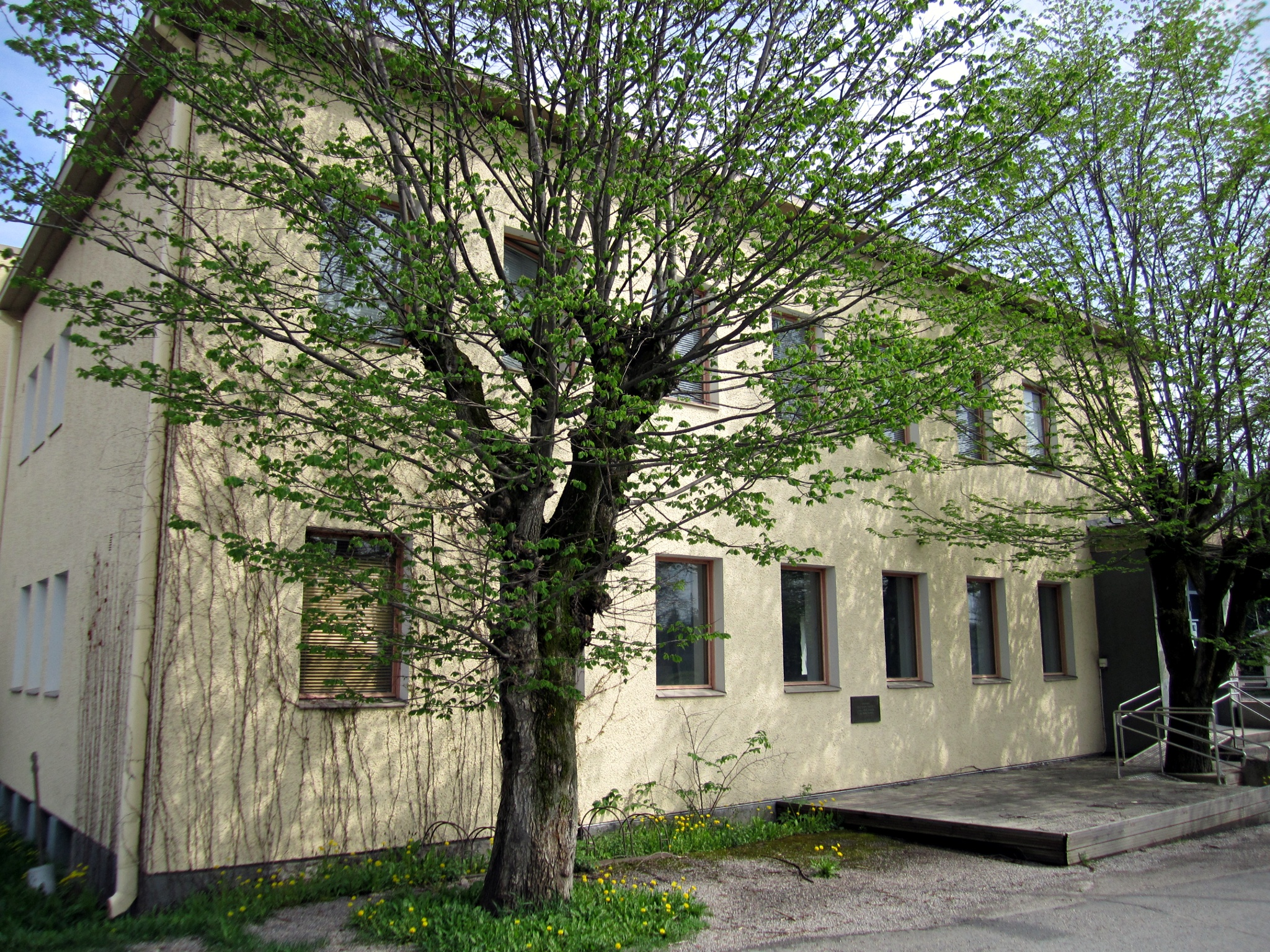 The house where Kaarlo Sarkia, the Finnish poet, was living at the time of his death in 1945. There's a commemorative plaque on the front wall in Sarkia's memory. Location downtown Sysmä, Finland.